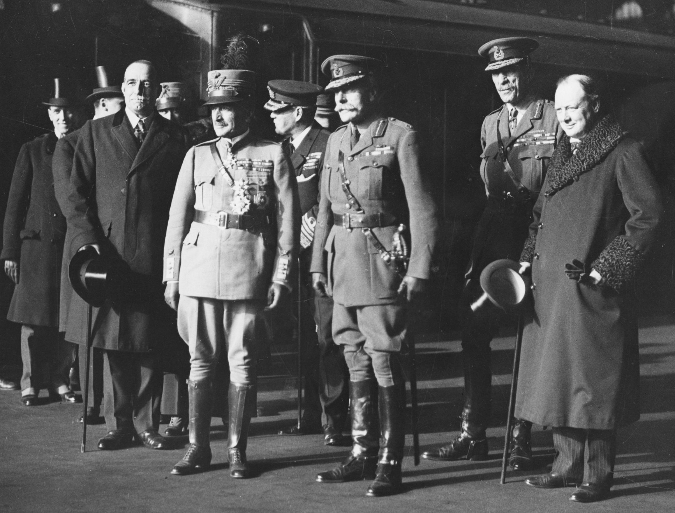 Field Marshal (Earl) Haig (1861-1928) and other military and civilian officials, including a French general, standing on a station platform. They appear about to greet someone as the two main civilians have their hats off. Sir Winston Churchill (1874-1965) stands to the right. The photograph has no original caption. It is not dated but it is perhaps most likely that it was taken in the period between 1918 and 1921 when Churchill was Secretary of State for War.